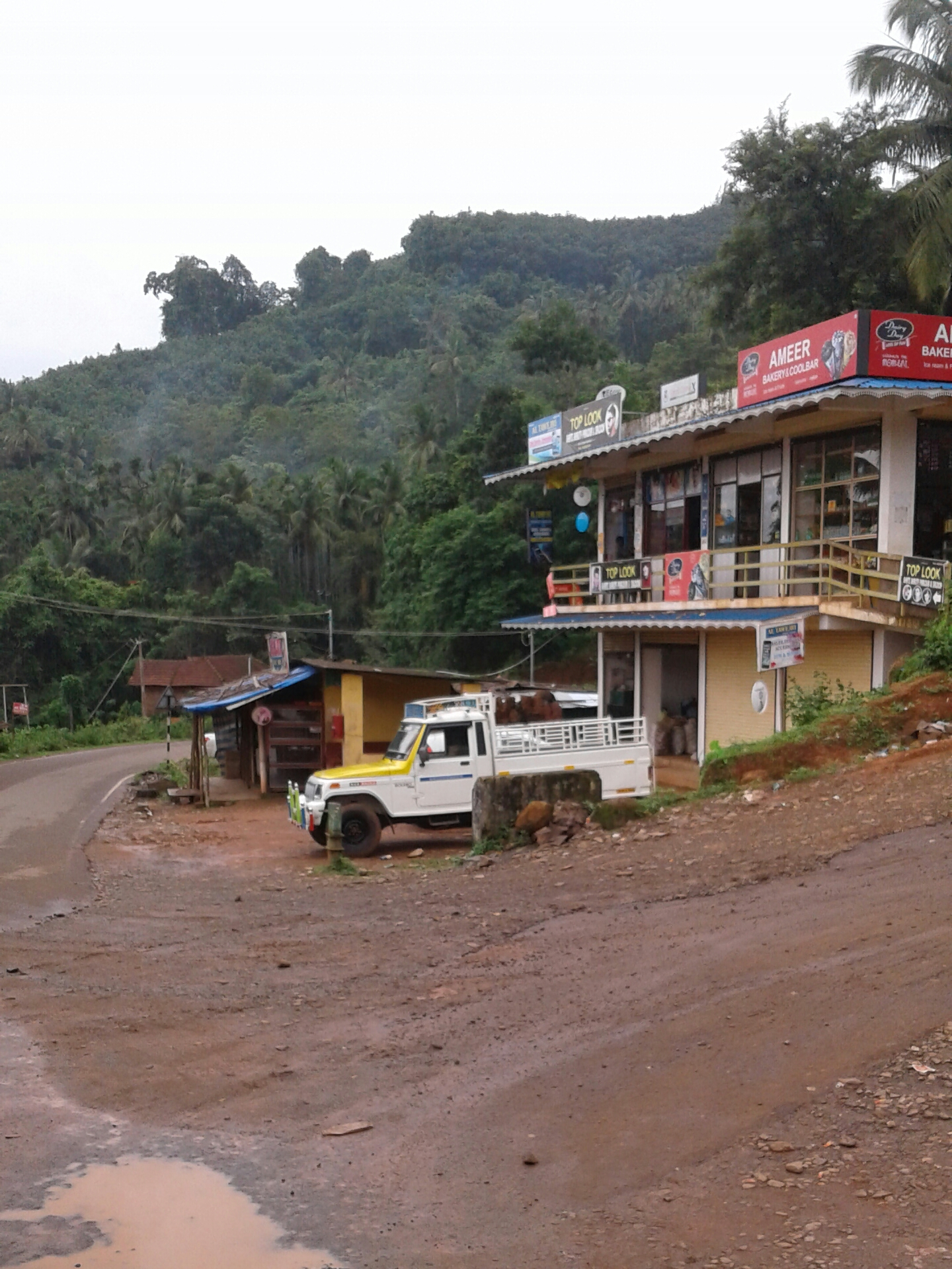 Kasaragod District, Kerala, India.